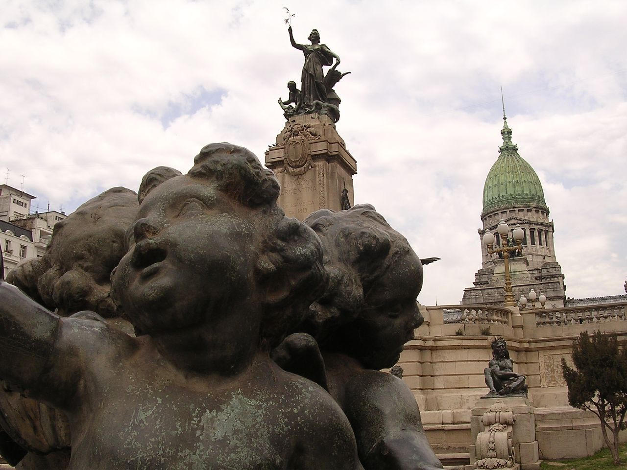 Plaza del Congreso, Buenos Aires, Argentina. Called Monumento a los 2 Congresos, by Belgian architect Eugène D'Huicque/Eugène Dhuicque (1877-1955)[1]; sculptor Jules Lagae (1862-1931). Created in Brussels, finished there 1909, installed in Buenos Aires and inaugurated there on July 9, 1914.[2]